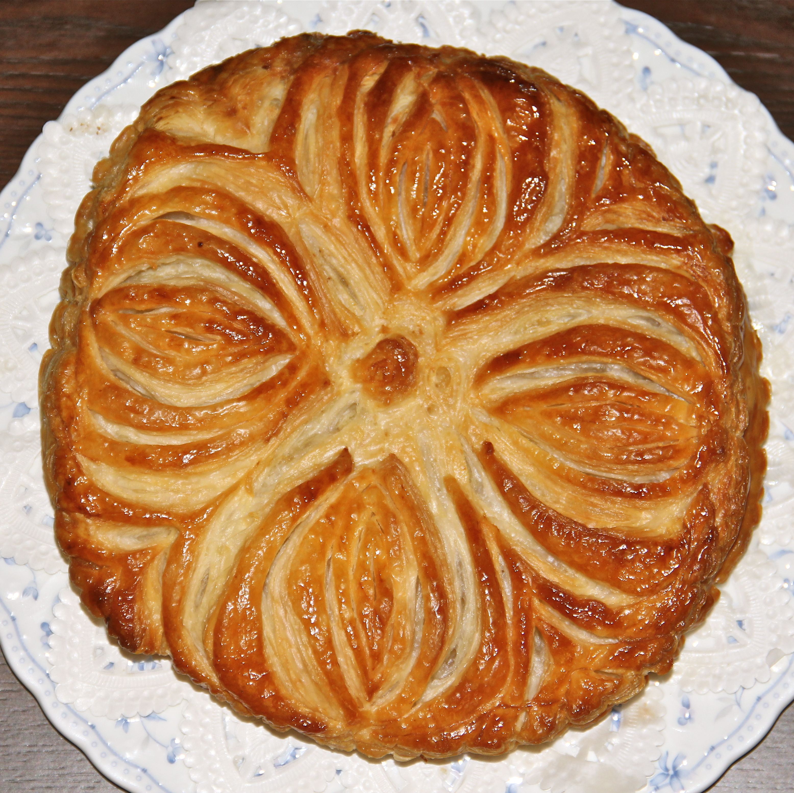 Making galette des rois or King cake